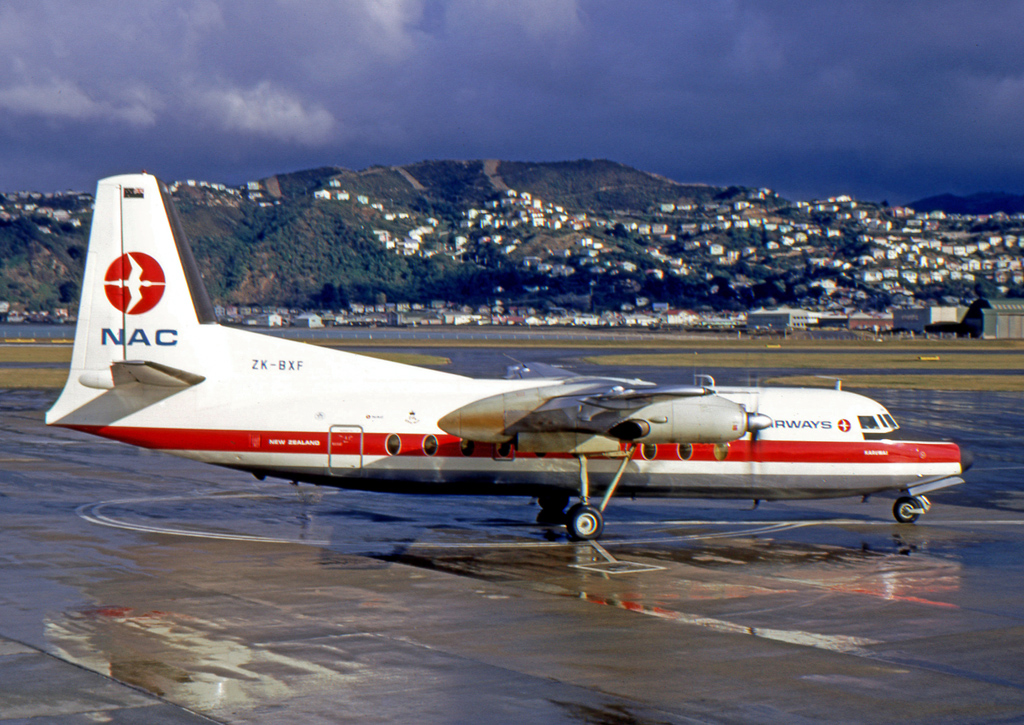 Fokker F-27 Series 100 ZK-BXF of New Zealand NAC at Wellington Airport in 1971